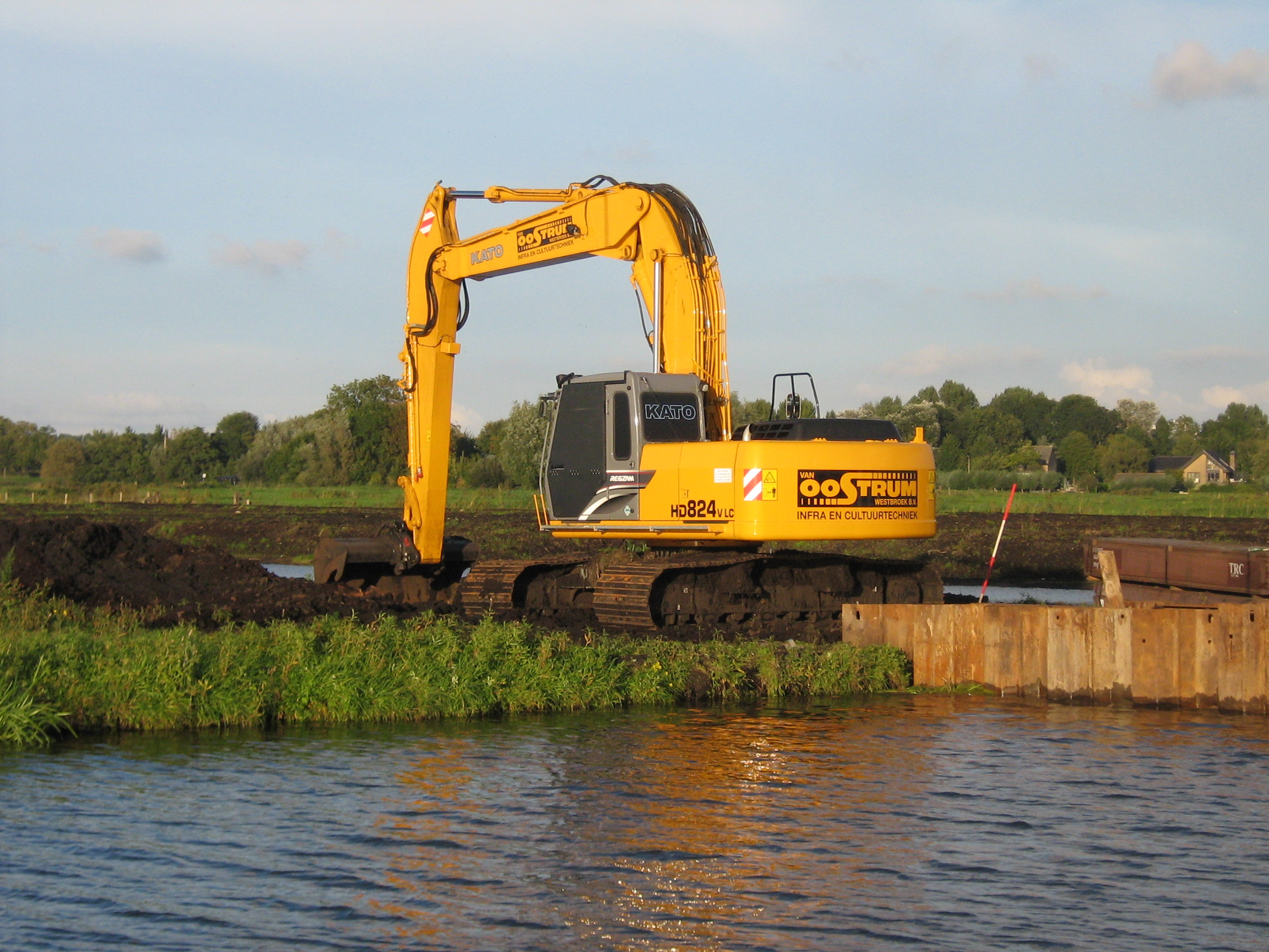 KATO Works HD824 excavator (inactive) photographed in Amstelveen, the Netherlands.